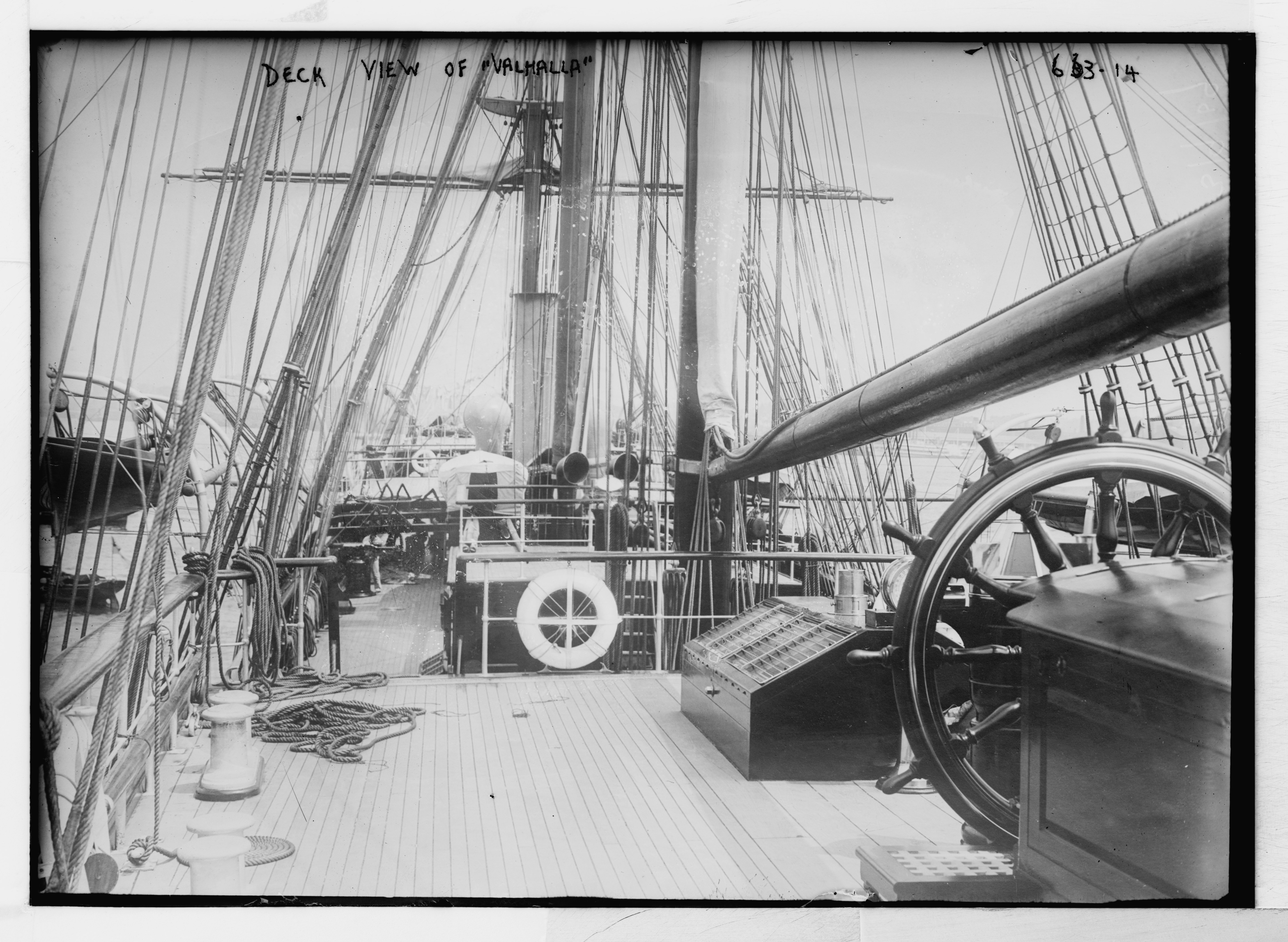 Title: Deck of clipper ship "Valhalla" Abstract/medium: 1 negative : glass ; 5 x 7 in. or smaller.